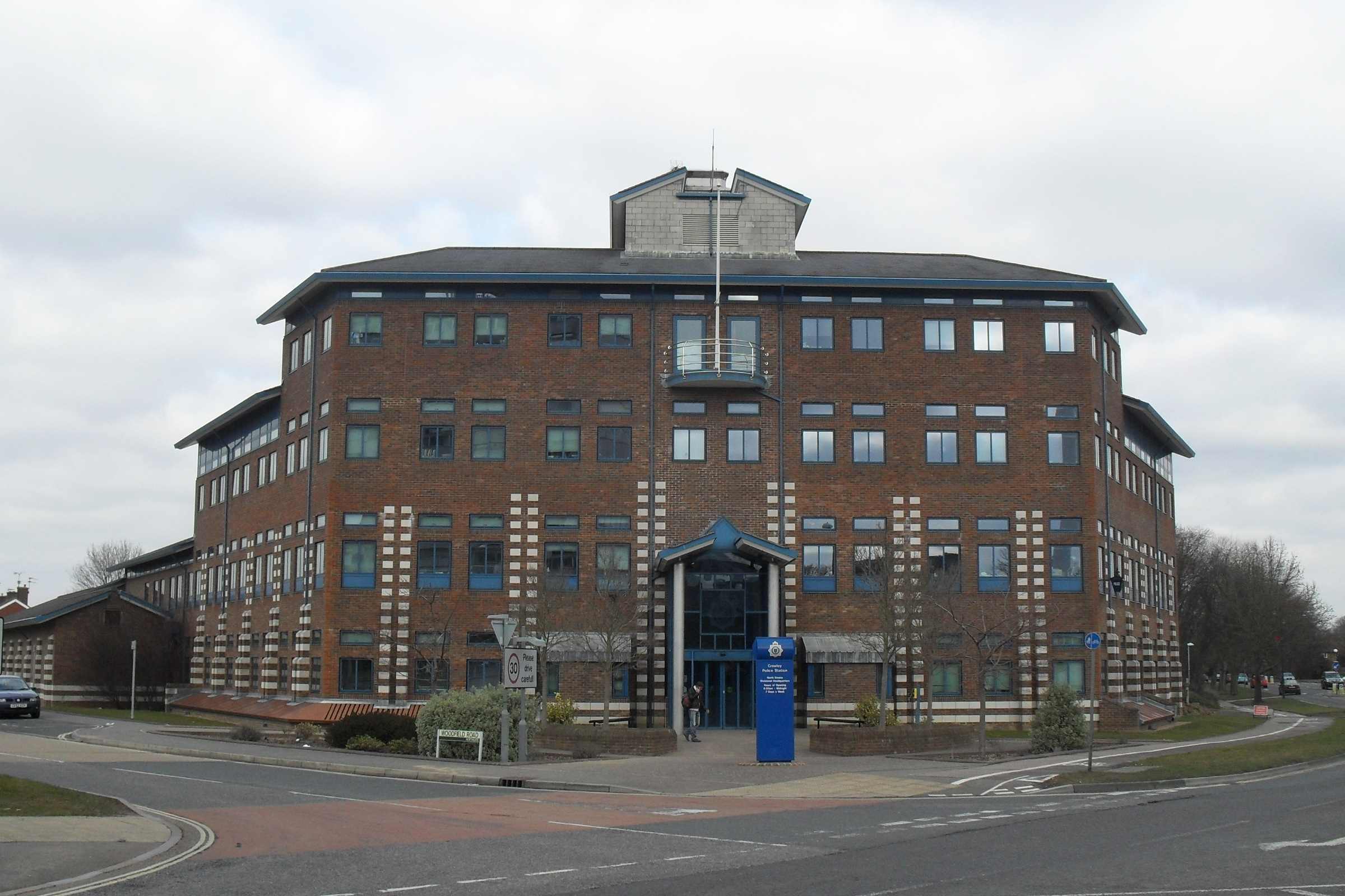 Crawley's police station, at the junction of Woodfield Road and Northgate Avenue, Northgate, Crawley, West Sussex, England.